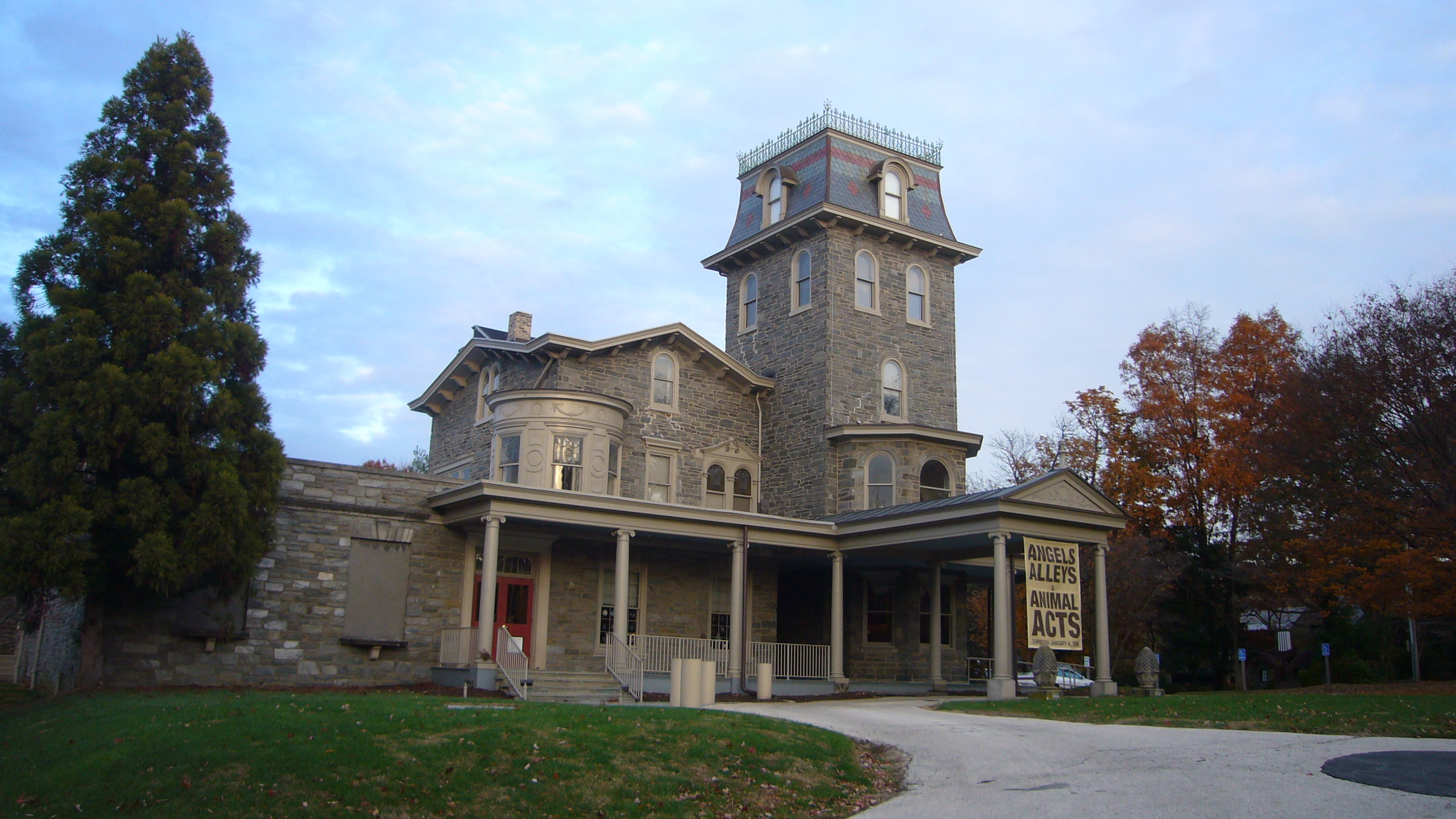 Woodmere Art Museum, Chestnut Hill, Philadelphia, Pennsylvania, United States. Photo taken by User:Staib on 24 November 2007.